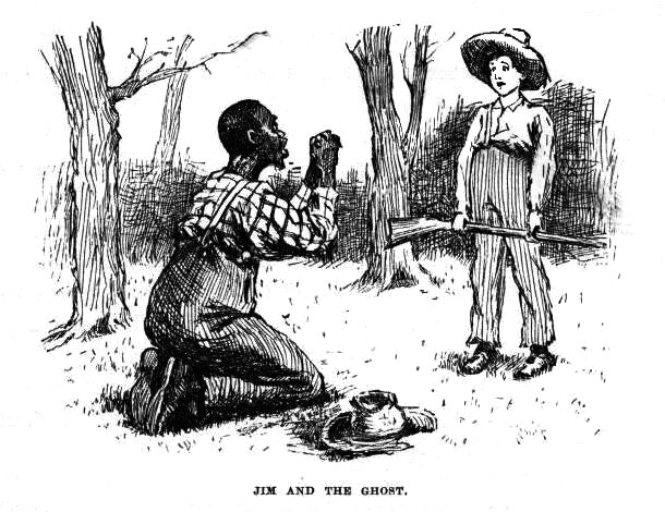 Illustration of Jim and Huckleberry Finn, by EW Kemble from the original 1884 edition of the book.